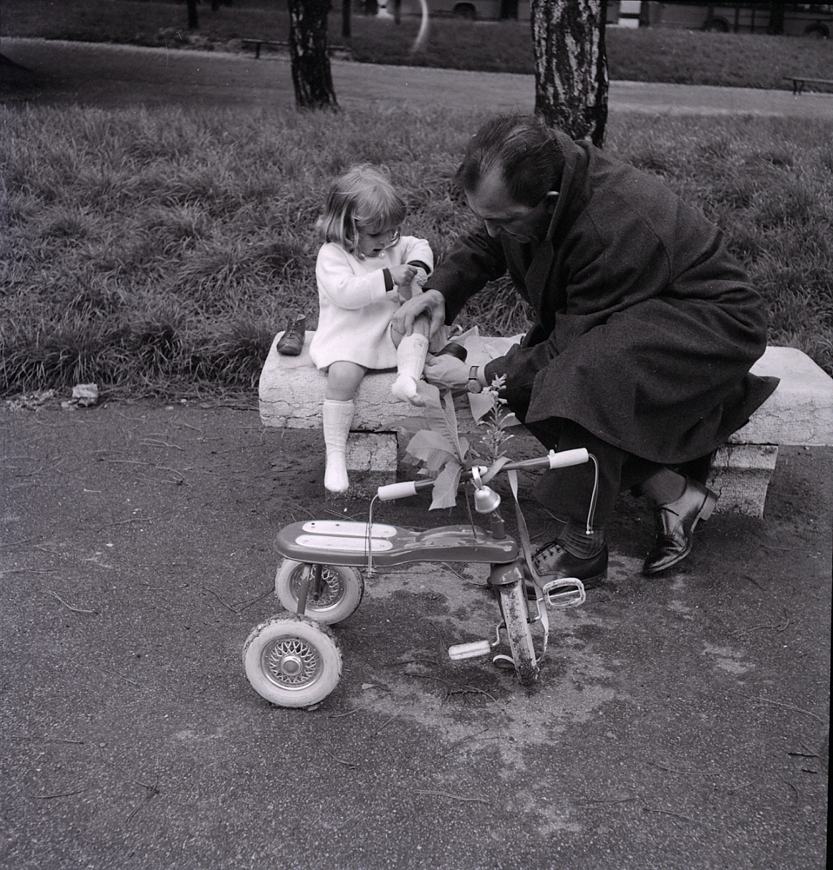 Portrait of architect Marco Zanuso with a child in a public garden. Servizio fotografico : Milano, 1960 / Paolo Monti. - Buste: 10, Fototipi: 10 : Negativo b/n, gelatina bromuro d'argento/ pellicola ; 6x6. - ((Serie costituita da 10 negativi identificati con i nn.: 16933-16942. Numerazione parallela parziale : 35bis-37, 82. Sulla busta R16933 manoscritto: "Zanuso". Sulla busta R16941 manoscritto: "Villa/ Monterosa". La suddetta serie è contenuta nella scatola identificata con la numerazione R16657-17048. - Fonte: Rubrica di Paolo Monti: Archivio 10x12 (ultimi numerati) - dal G1 al (s.d.), presso Archivio Paolo Monti